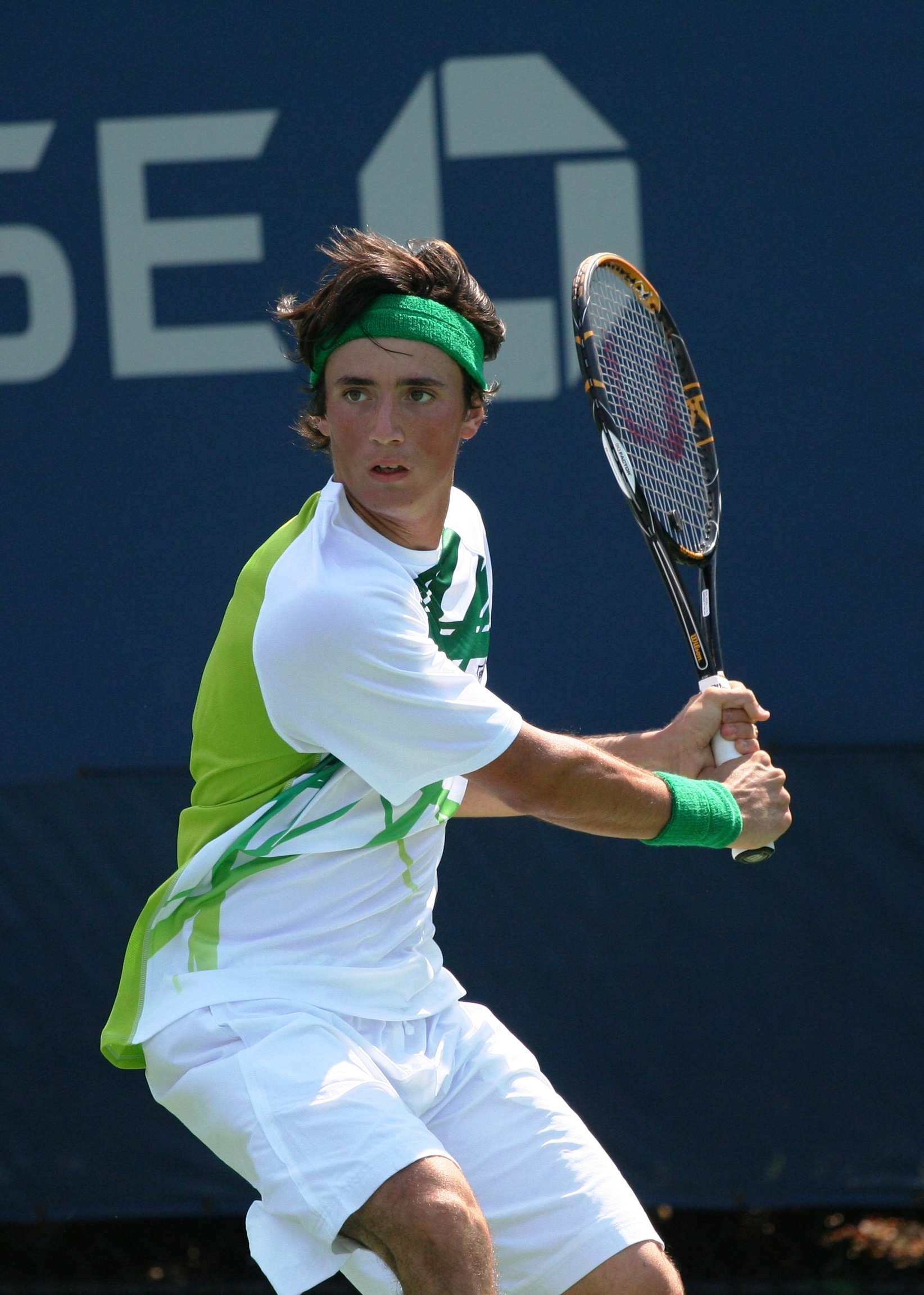 U.S. Open Juniors Wednesday, Sept. 8, 2010